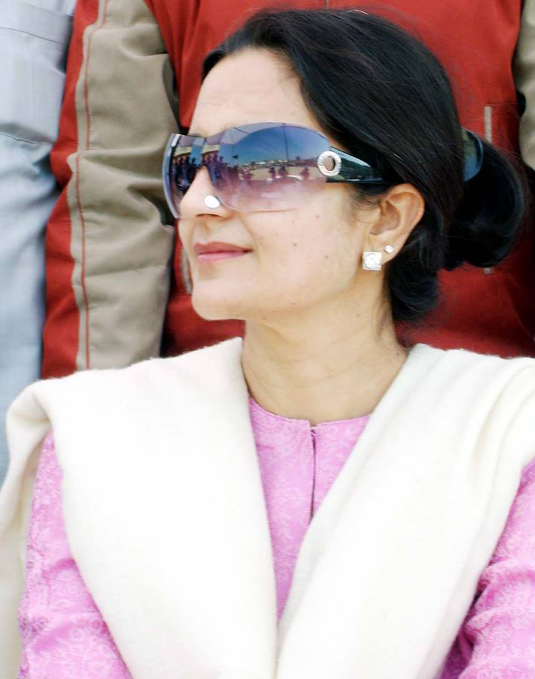 This is a photo of Congress leader Kiran Choudhry